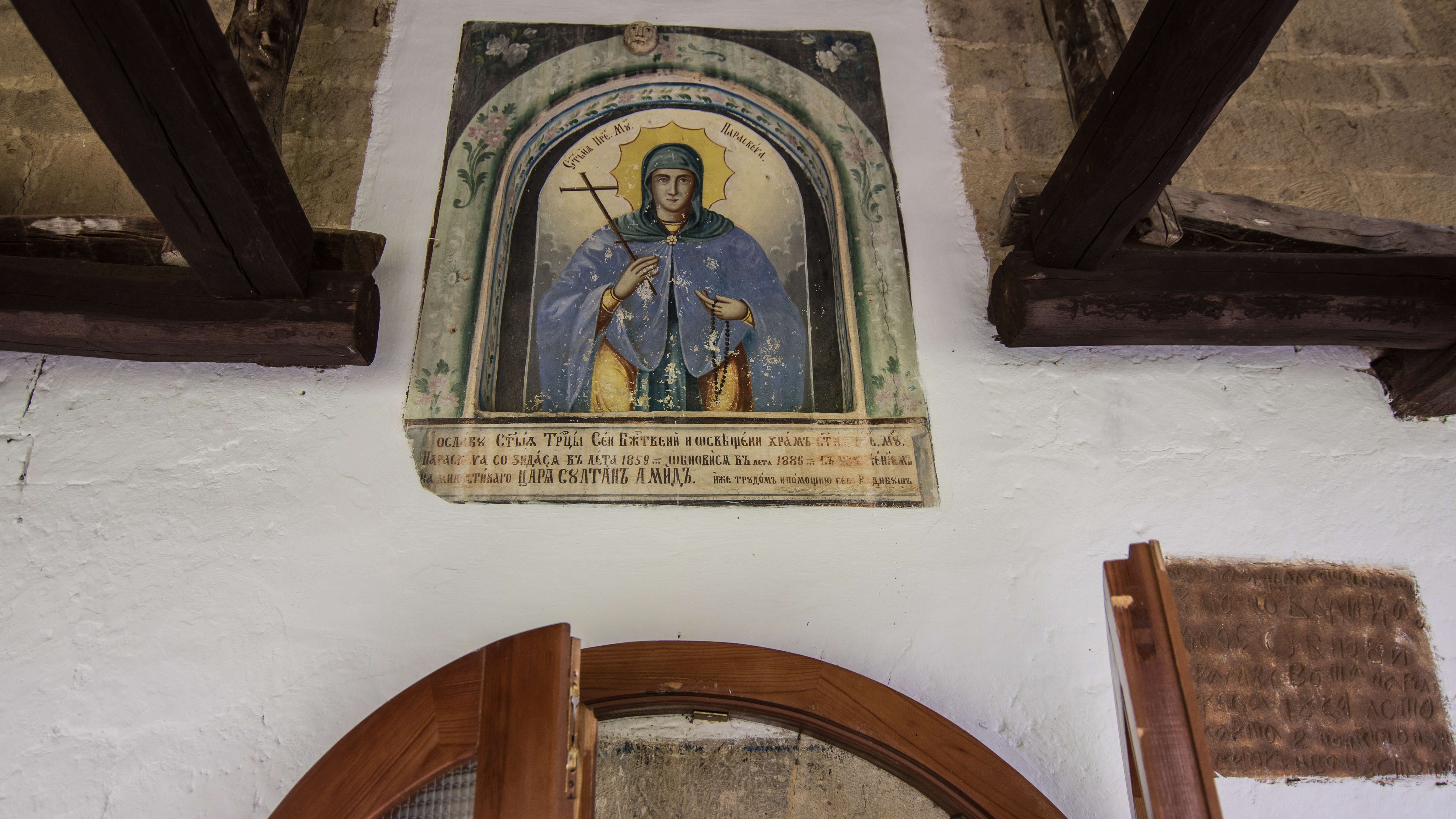 View of the St. Petka Church in the village Radibuš